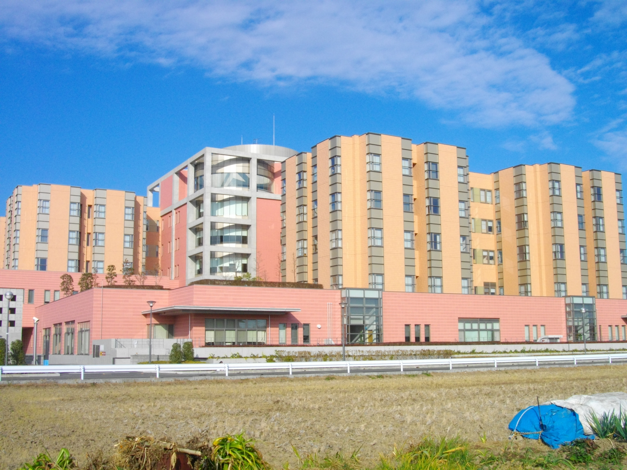 Saitama Citizens Medical Center